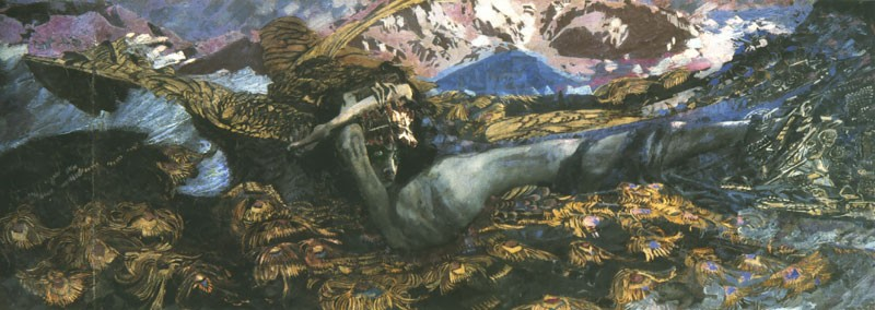 The Fallen Demon